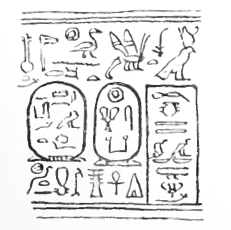 Picture of a cylinder seal impression bearing the name of pharaoh Sekhemkara Amenemhat-senebef. 13th dynasty, Middle Kingdom.